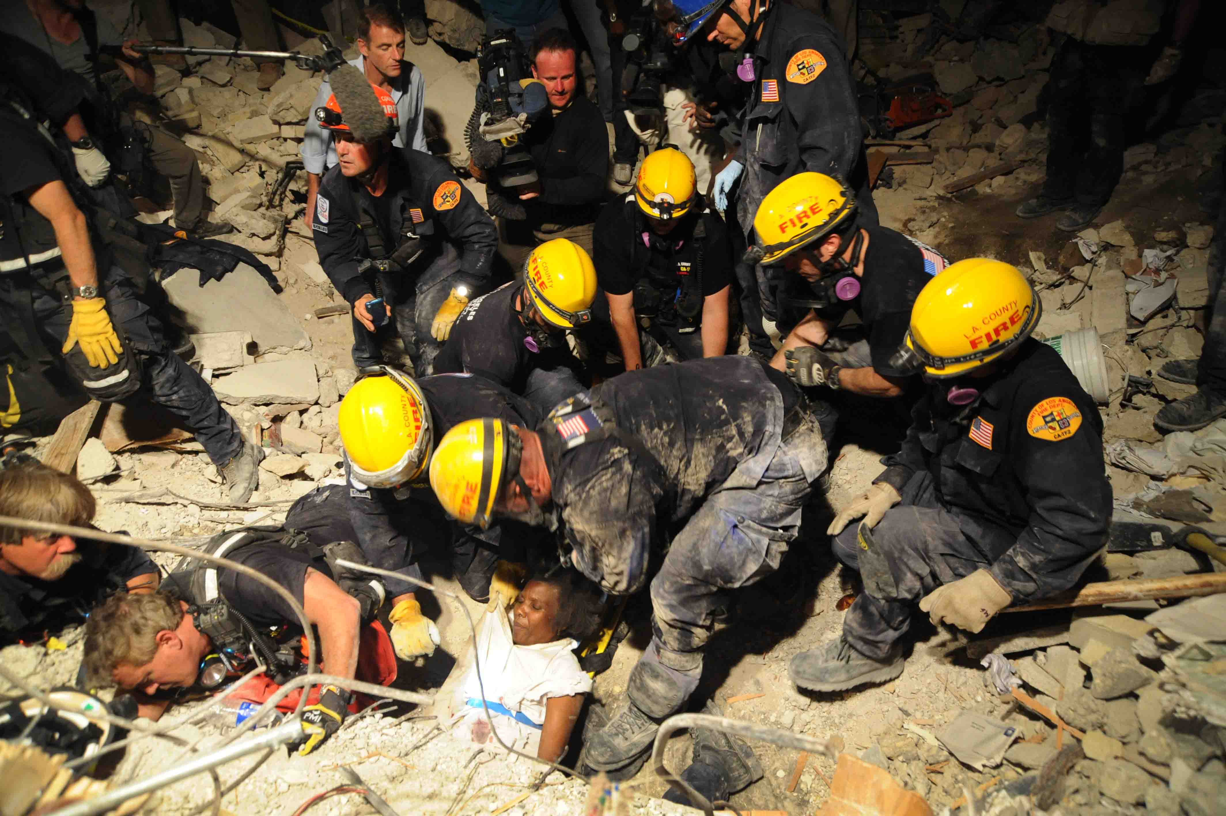 A Haitian woman is pulled from earthquake debris by members of LA County SAR.